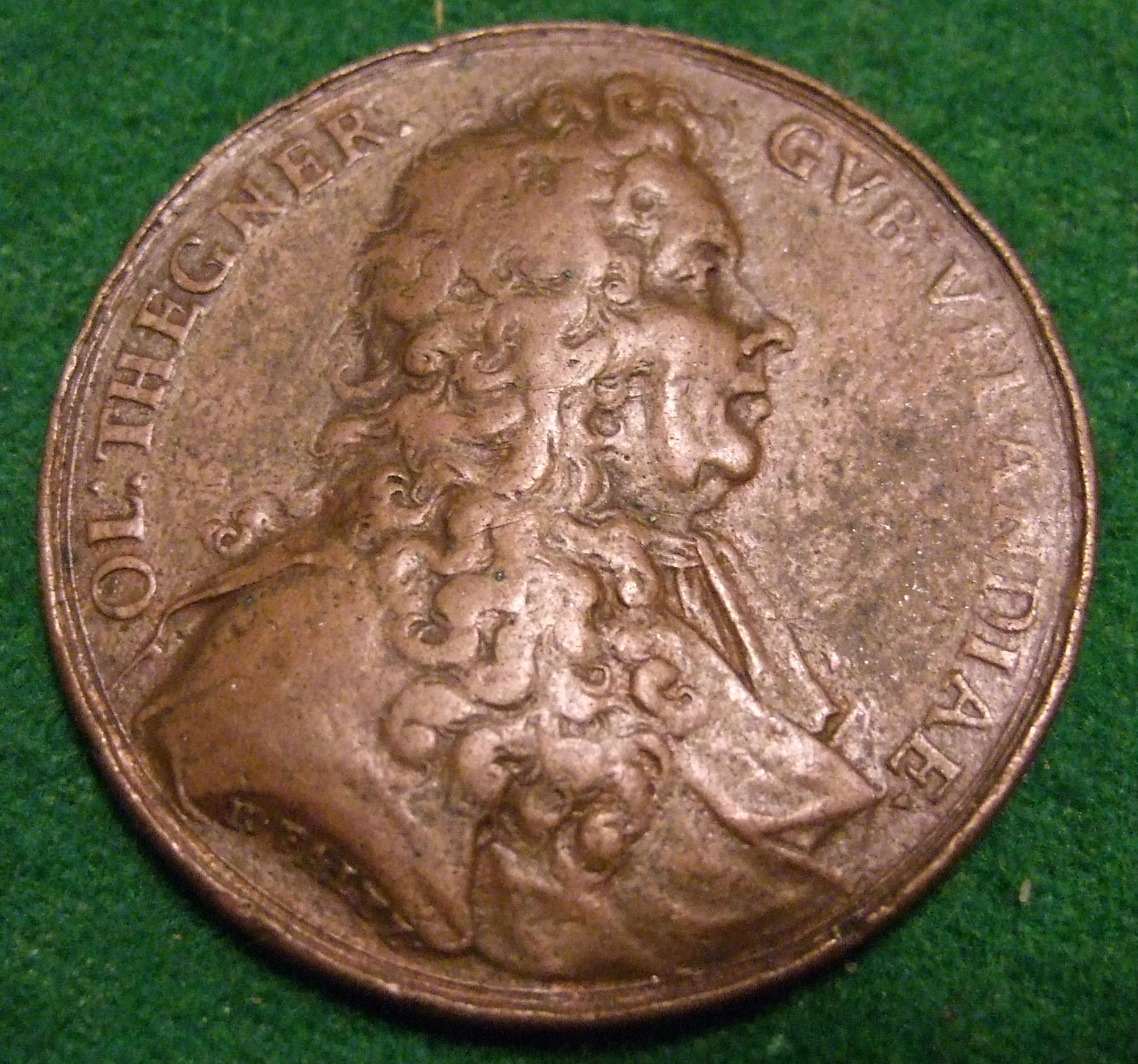 BARON OLOF THEGNER, GOVERNOR of UPLANDIA, SWEDEN MEDALLION 1687 b